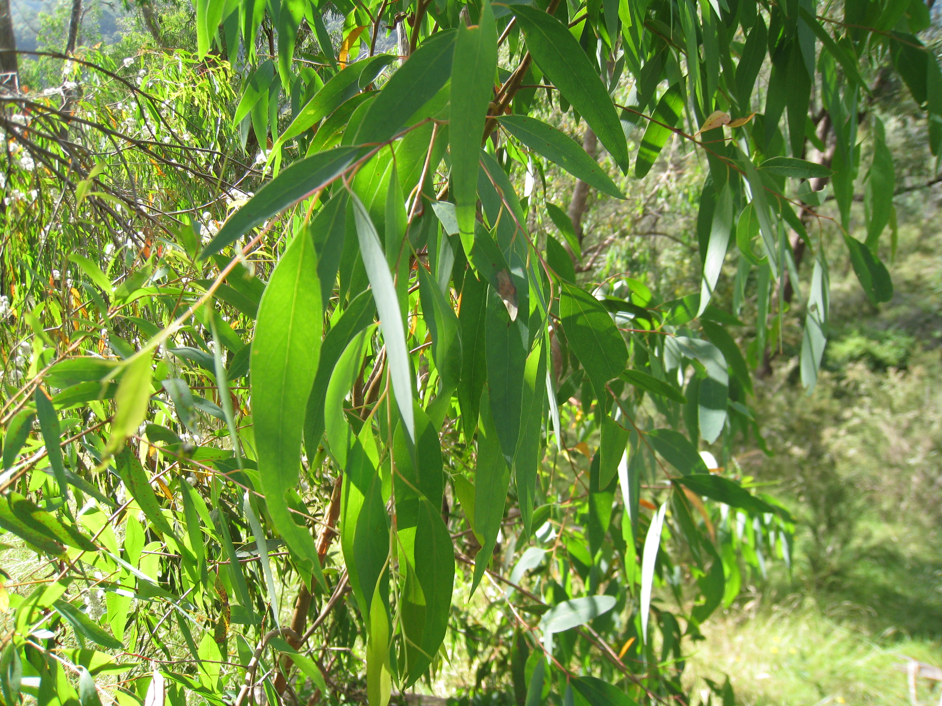 When you crush them, the leaves smell, well sort of pepperminty. Narrow-leaved peppermint, Eucalyptus radiata. Dargo VIC Australia, January 2011.